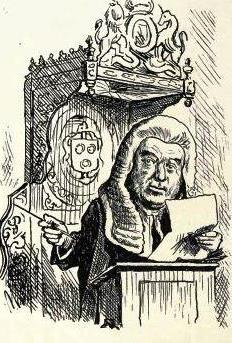 David Tennant. Speaker of the Cape Colony Parliament. The Lantern publication. Cape Archives.